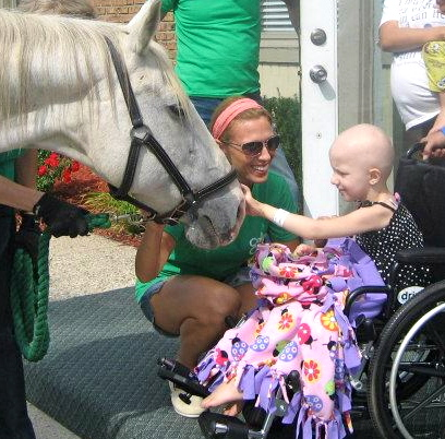 Camp Casey takes a horse right to a sick child's home and surprises them for the day.